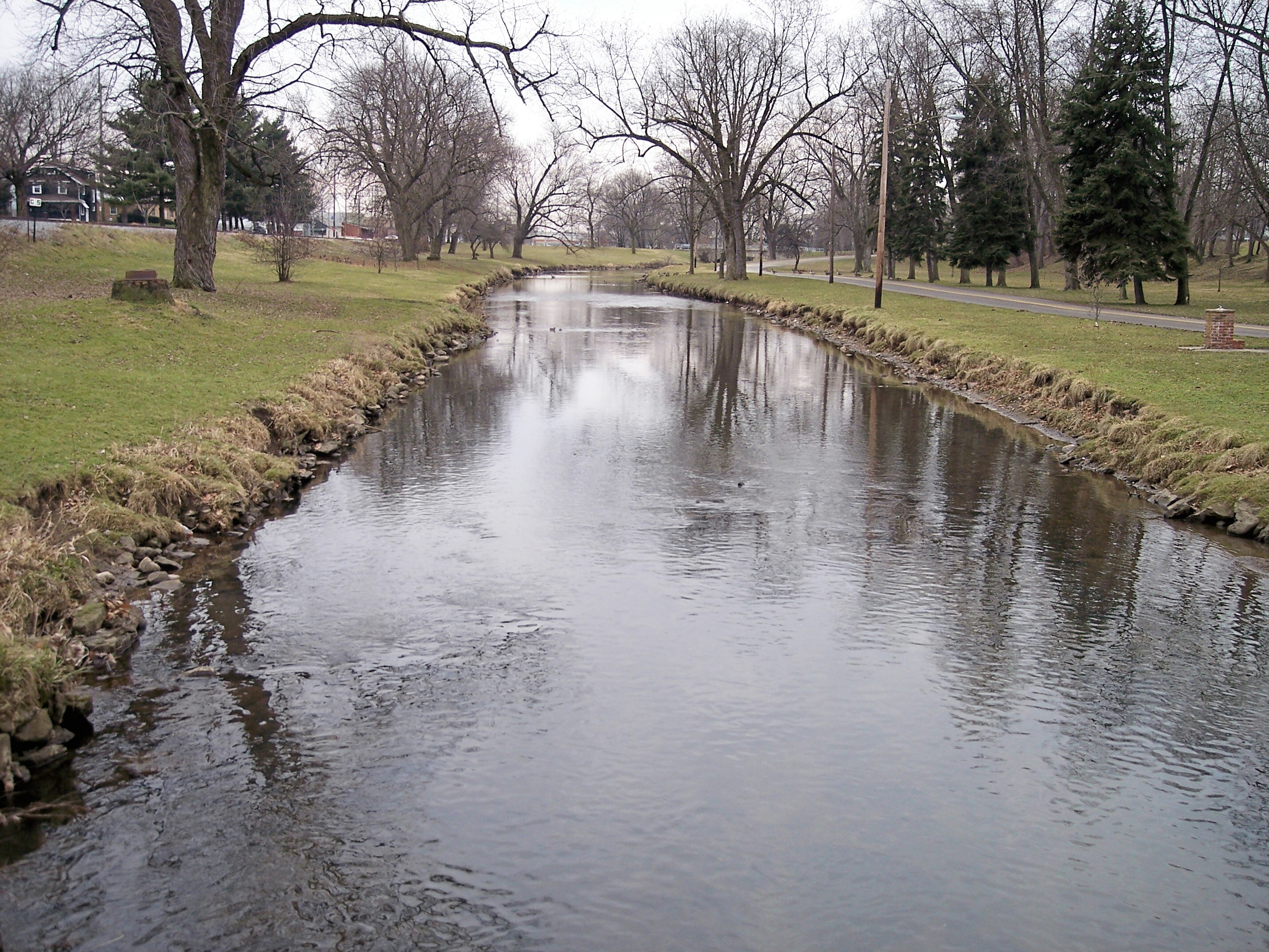 West Branch Nimishillen Creek in Monument City Park in Canton, Ohio